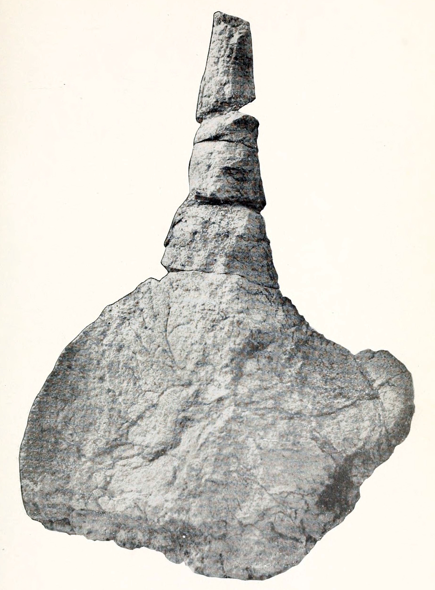 Hoplitosaurus spined plate.